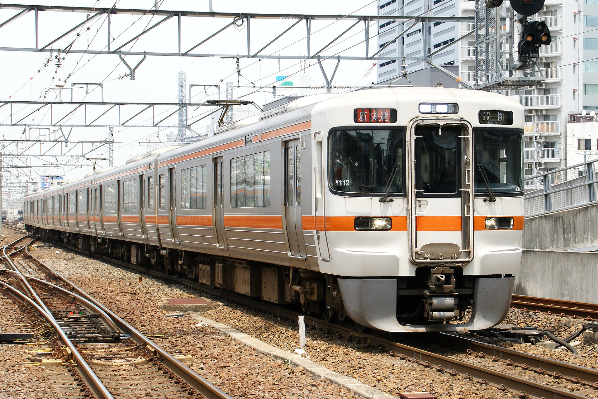 JR Central 313-5000 series EMU set Y112 approaching Nagoya Station in Japan